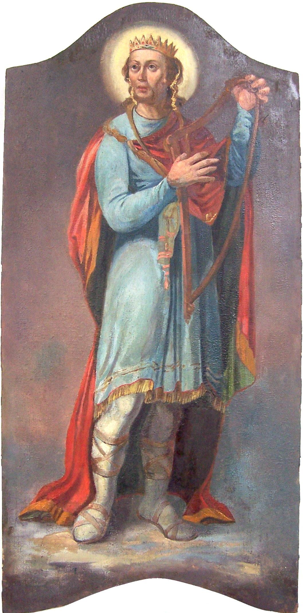 The picture is a Greek Catholic icon depicting King David with the lyre. The icon was painted in the end of the 18th century as part of the iconostasis of the Greek Catholic Cathedral of Hajdúdorog, Hungary. David's icon is placed on the third tier of the iconostasis, the so called Prophet tier. This icon is the fourth painting from the left.